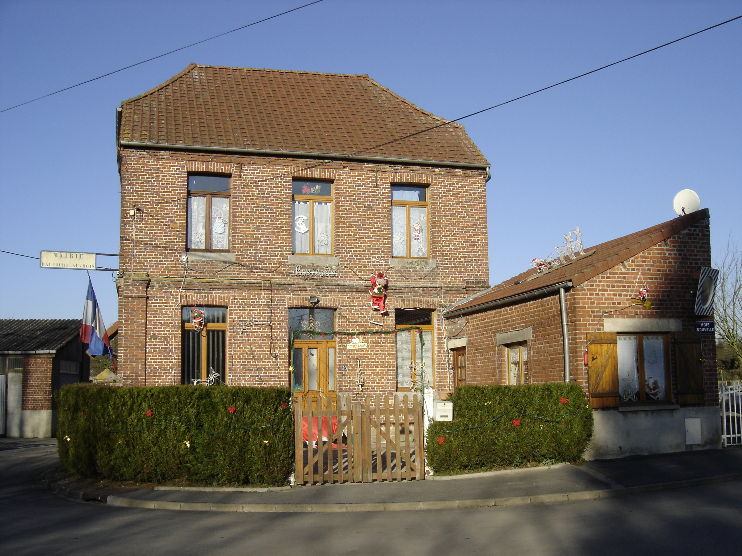 Raucourt-au-Bois Center of the village